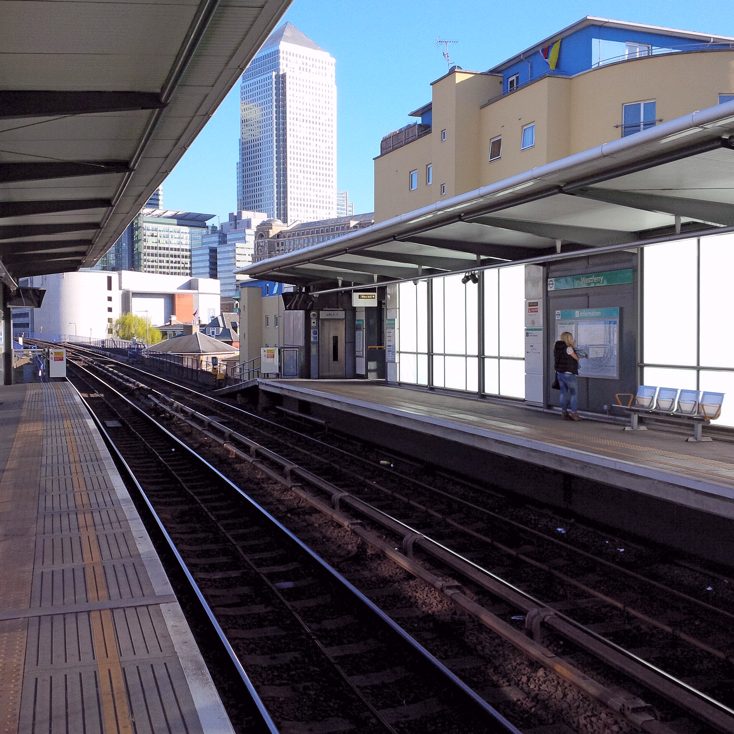 Interior of the Westferry DLR station in London.